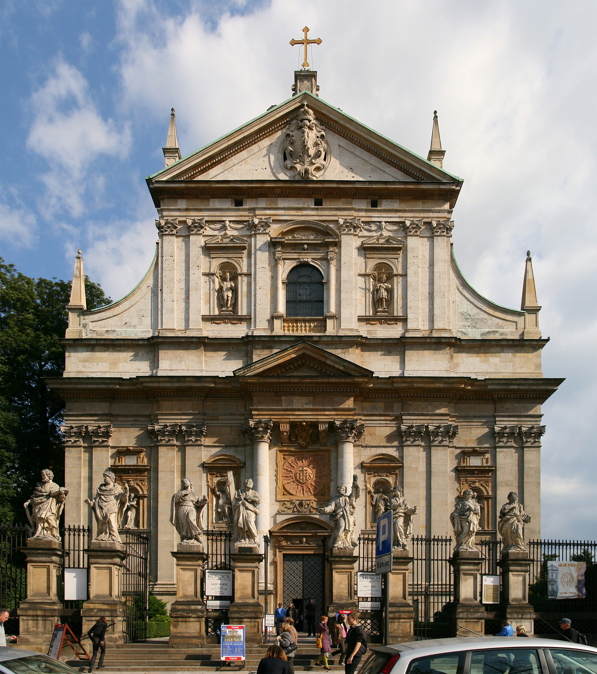 Ss. Peter and Paul church in Kraków (Poland).